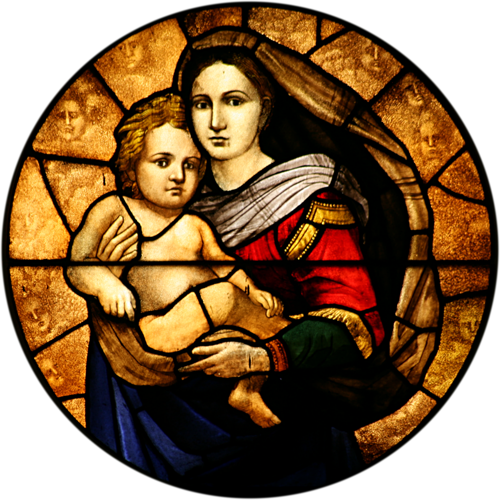 Stained glass panel in the transept of St. John's Anglican Church, Ashfield, New South Wales (NSW). This scene depicts Mary holding a young Jesus. They are framed in front of a background of indistinct faces. The window is approximately 1m in diameter.